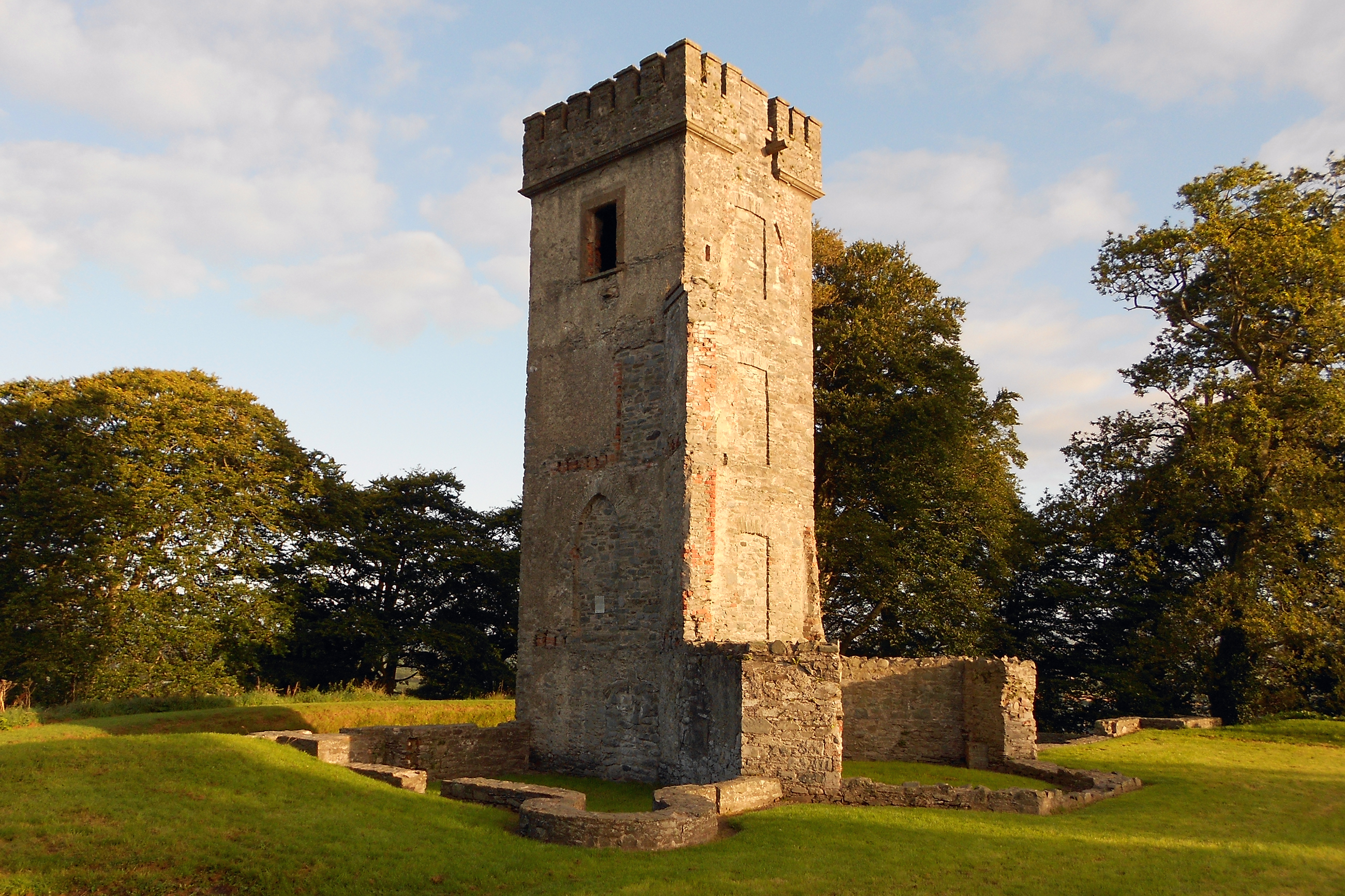 Dun Dealgan Motte Castletown/Cuchulainn's Castle